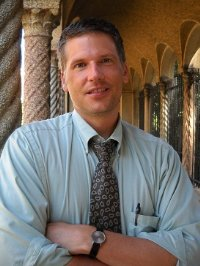 This is a picture of Robert Arp, wearing a tie.